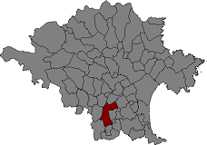 Location of Garrigàs in Alt Empordà